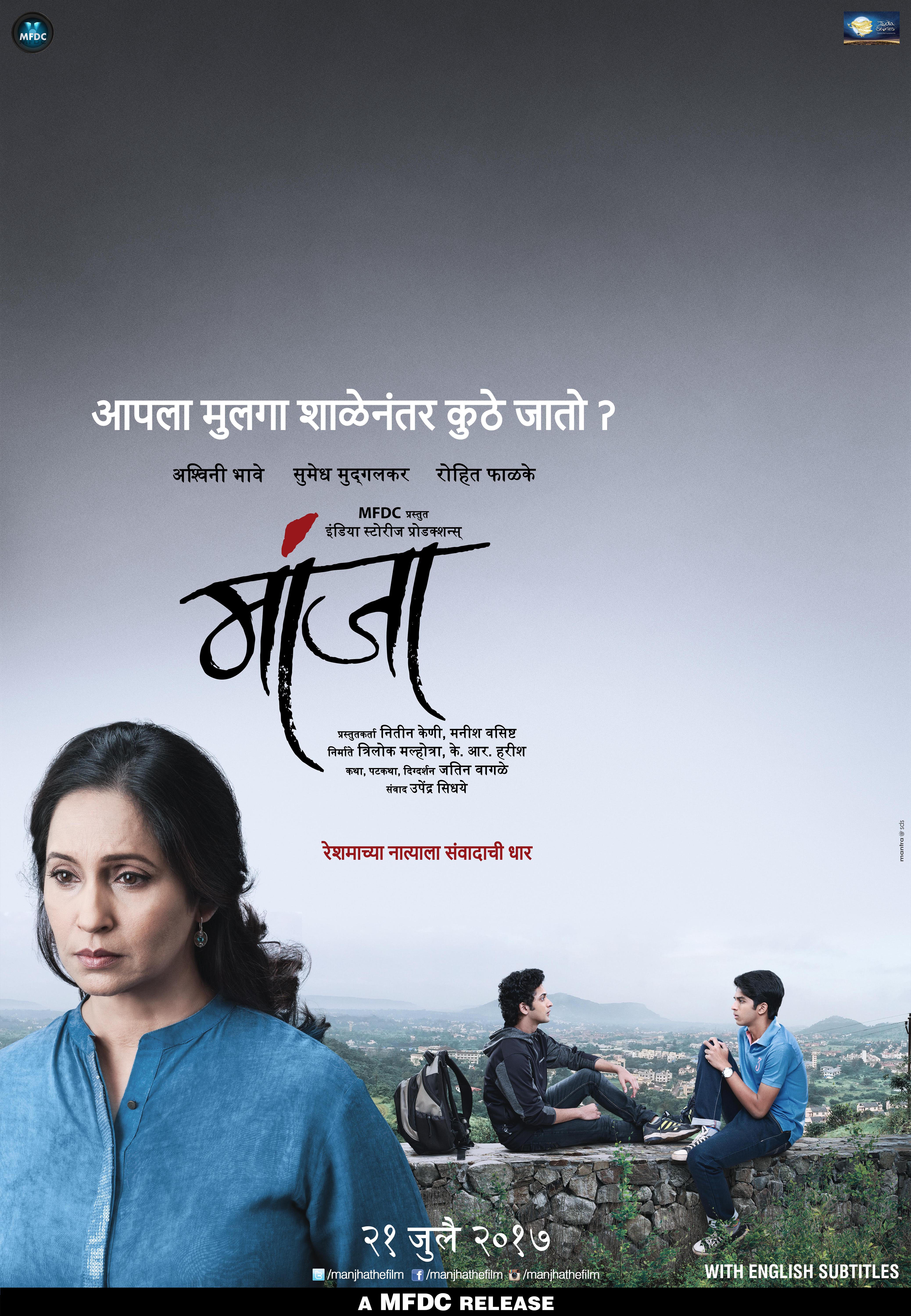 This is the Manjha official poster.